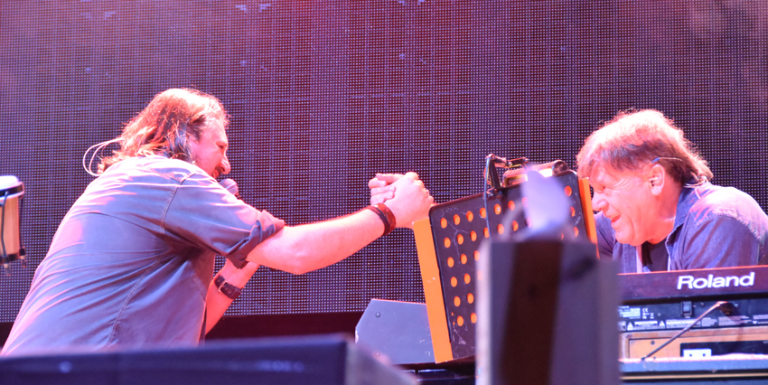 Beppe Carletti and Yuri Cilloni.